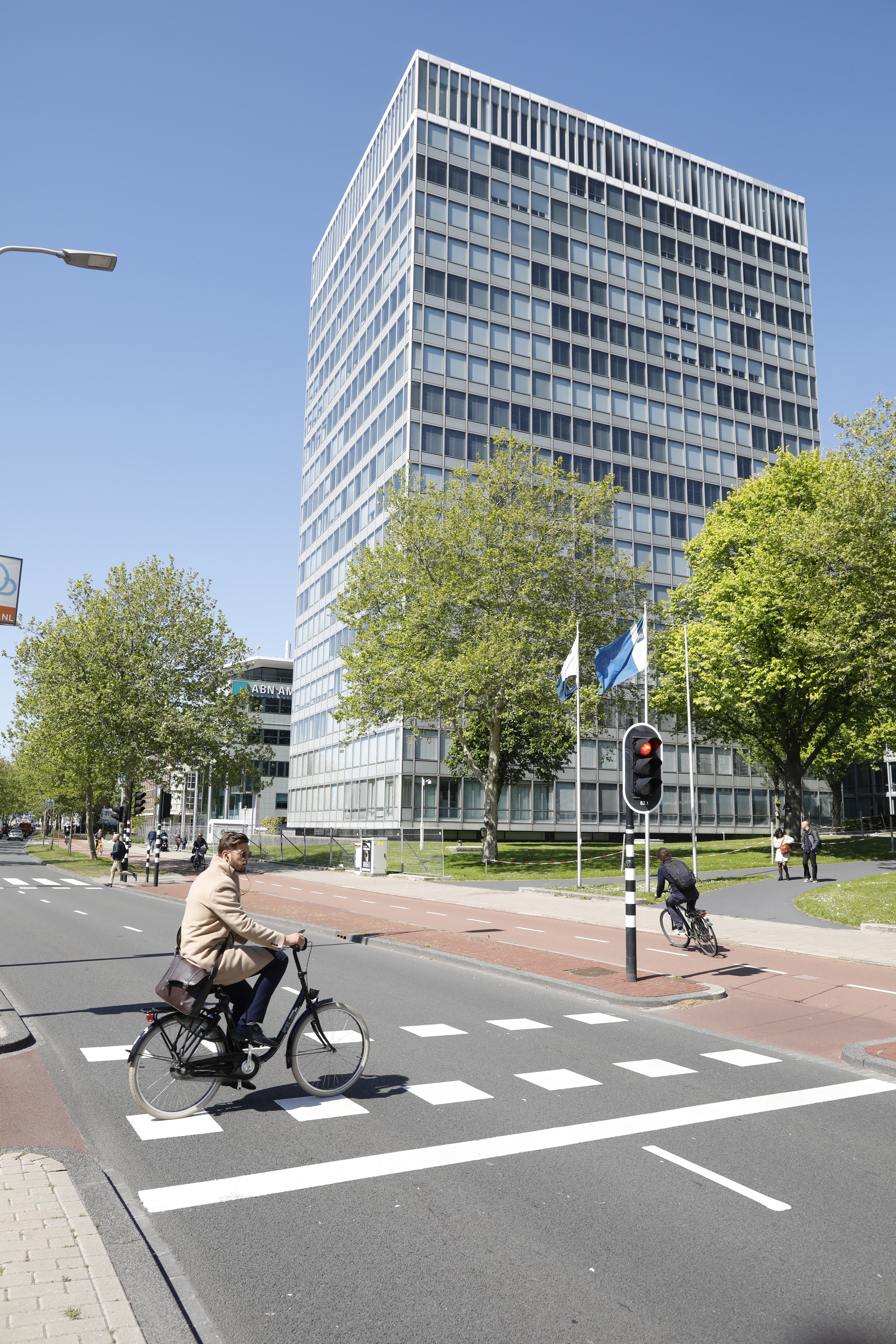 Dutch Emissions Authority HQ